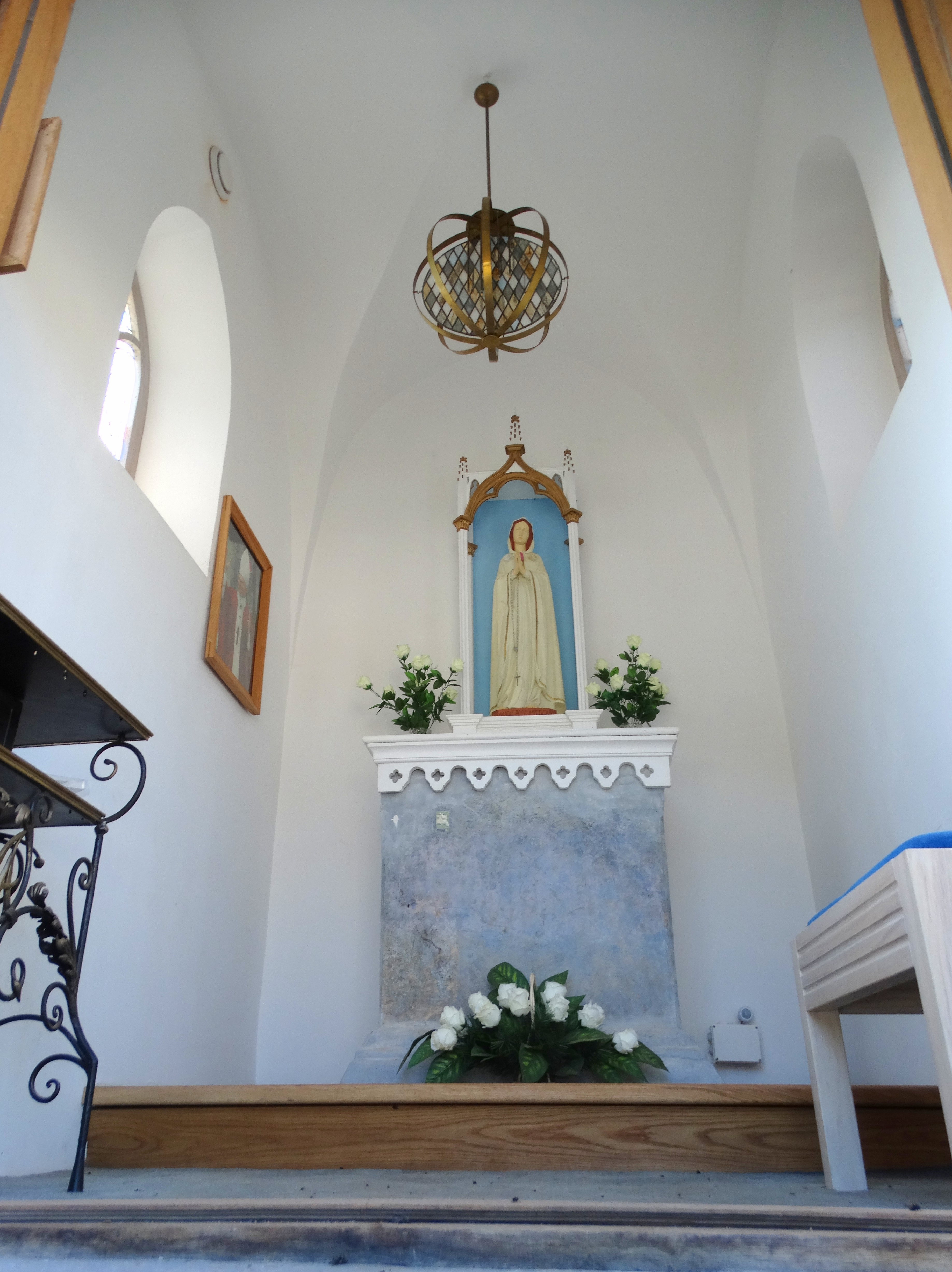 Svėdasai manor chapel, Anykščiai district, Lithuania